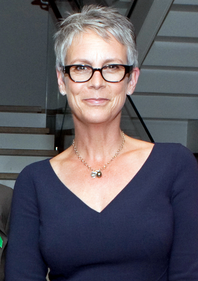 Actress Jamie Lee Curtis at the 2011 National Children's Mental Health Awareness Day.